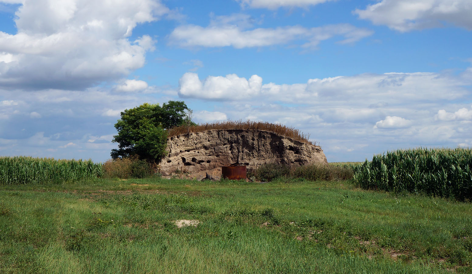 The old mound called "Čuka" that was once about 5 m high, now stands in half of its glory, since its material is dug up and mostly carried away. Even still, this is the most remarkable one, without doubt surviving many centuries.